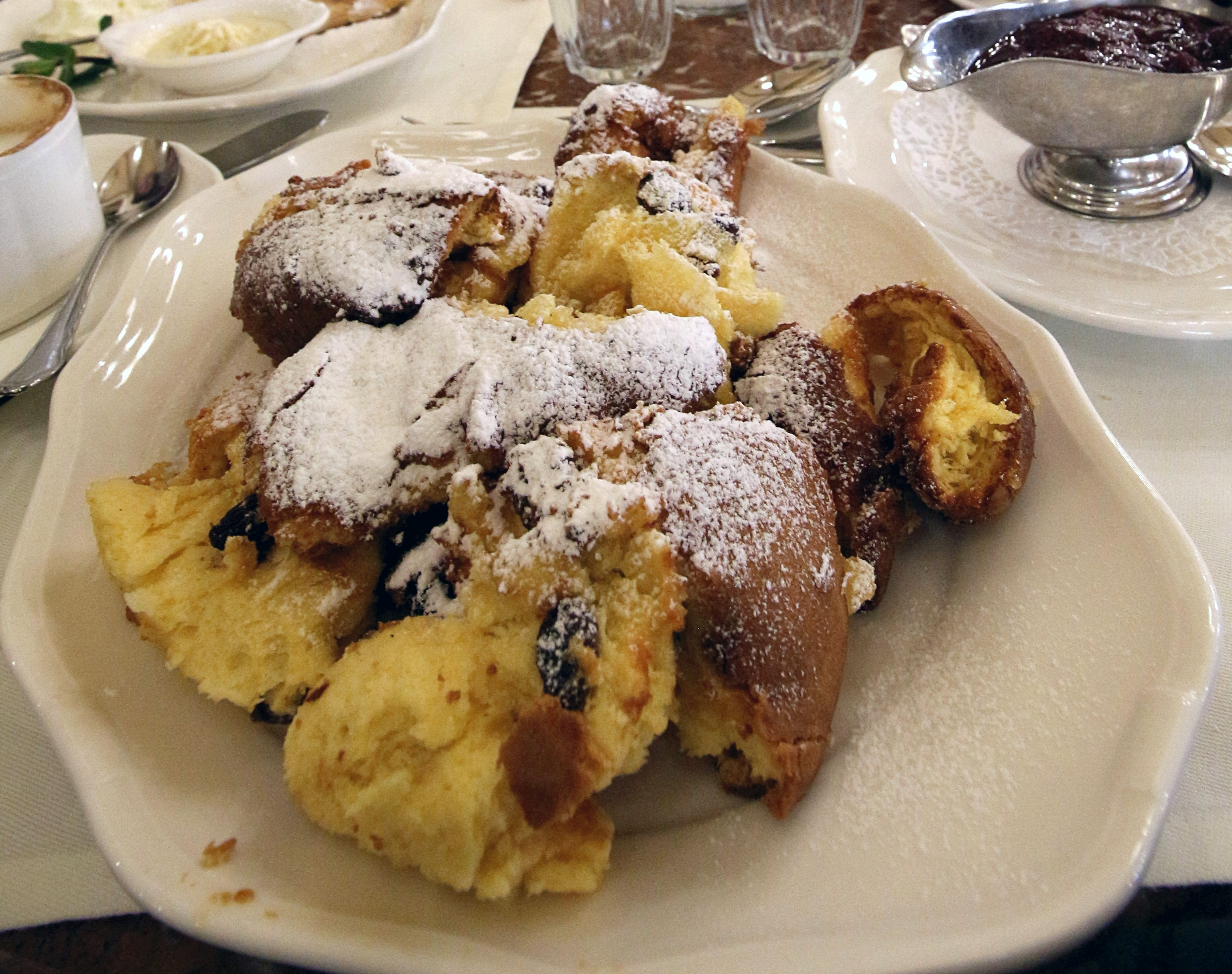 Kaiserschmarrn @ Cafe Central, Vienna.